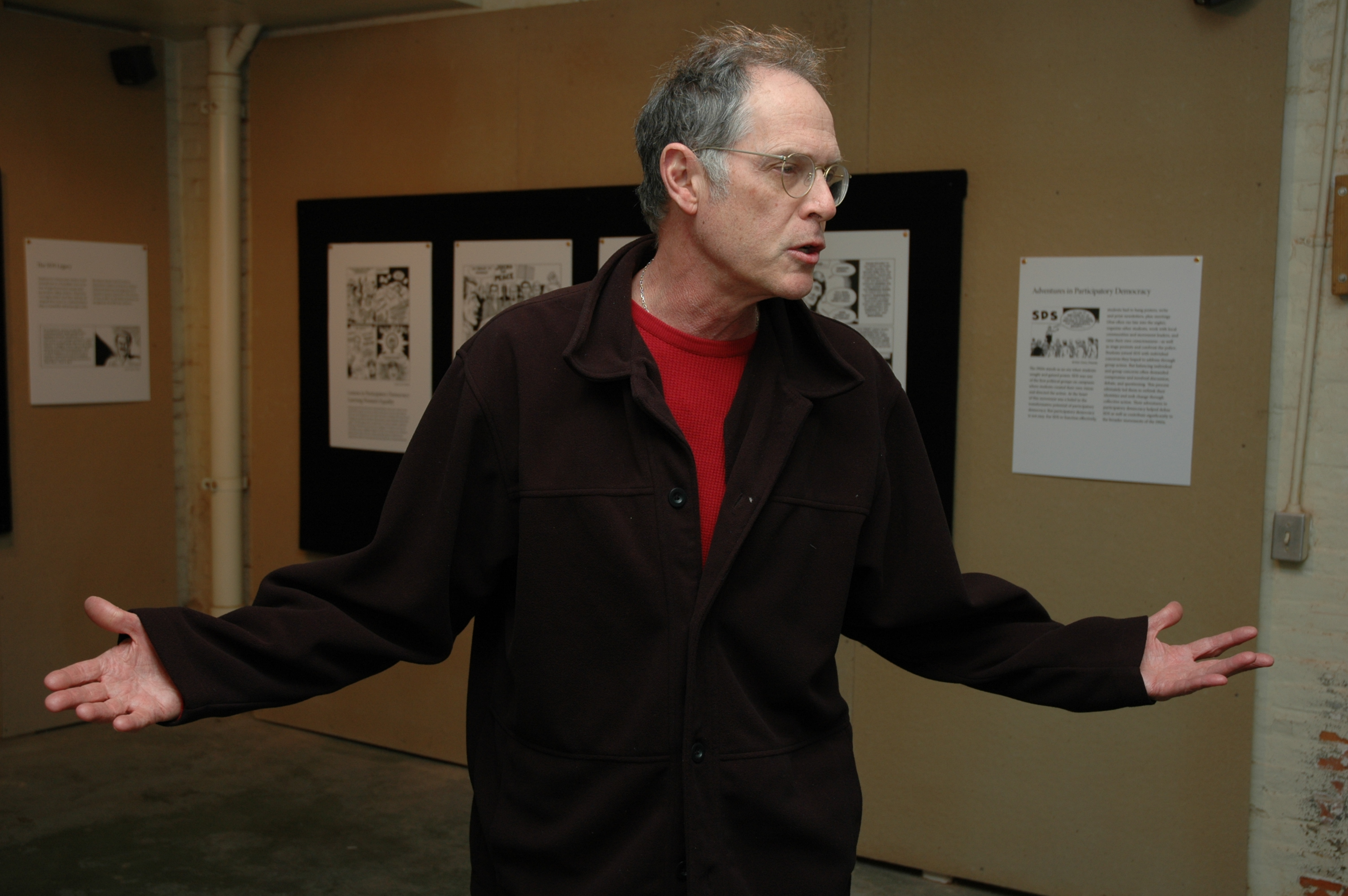 Author, editor, activist and professor (Brown University) Paul Buhle, 2007. In this photo Buhle is speaking at an installation of art from "Students for a Democratic Society: A Graphic History" held at the John Nicholas Brown Center in Providence, Rhode Island.